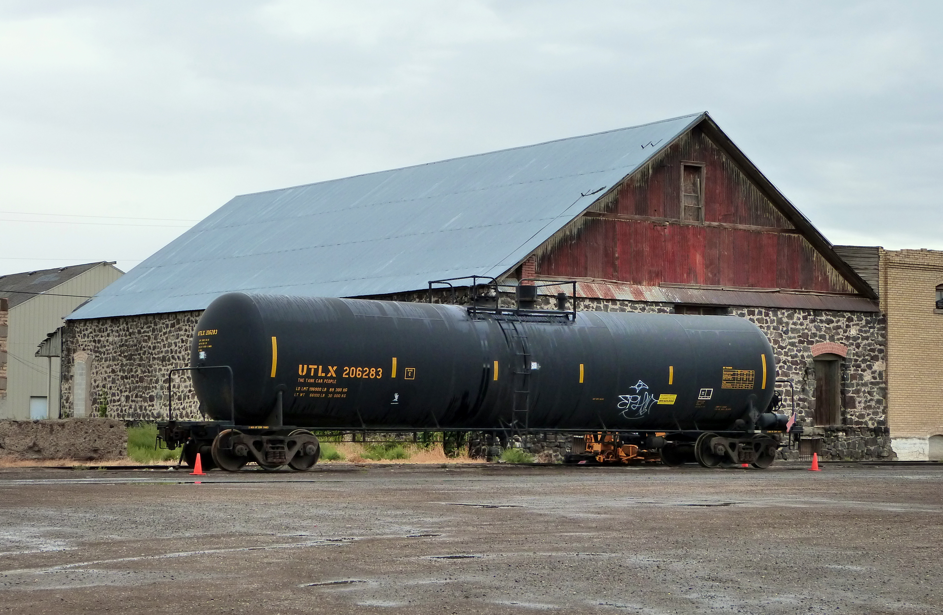 The historic Falk Wholesale Company building (built ca. 1910), located at 233 Wall Street in Twin Falls, Idaho, United States, is listed as a contributing resource in the Twin Falls Warehouse Historic District.